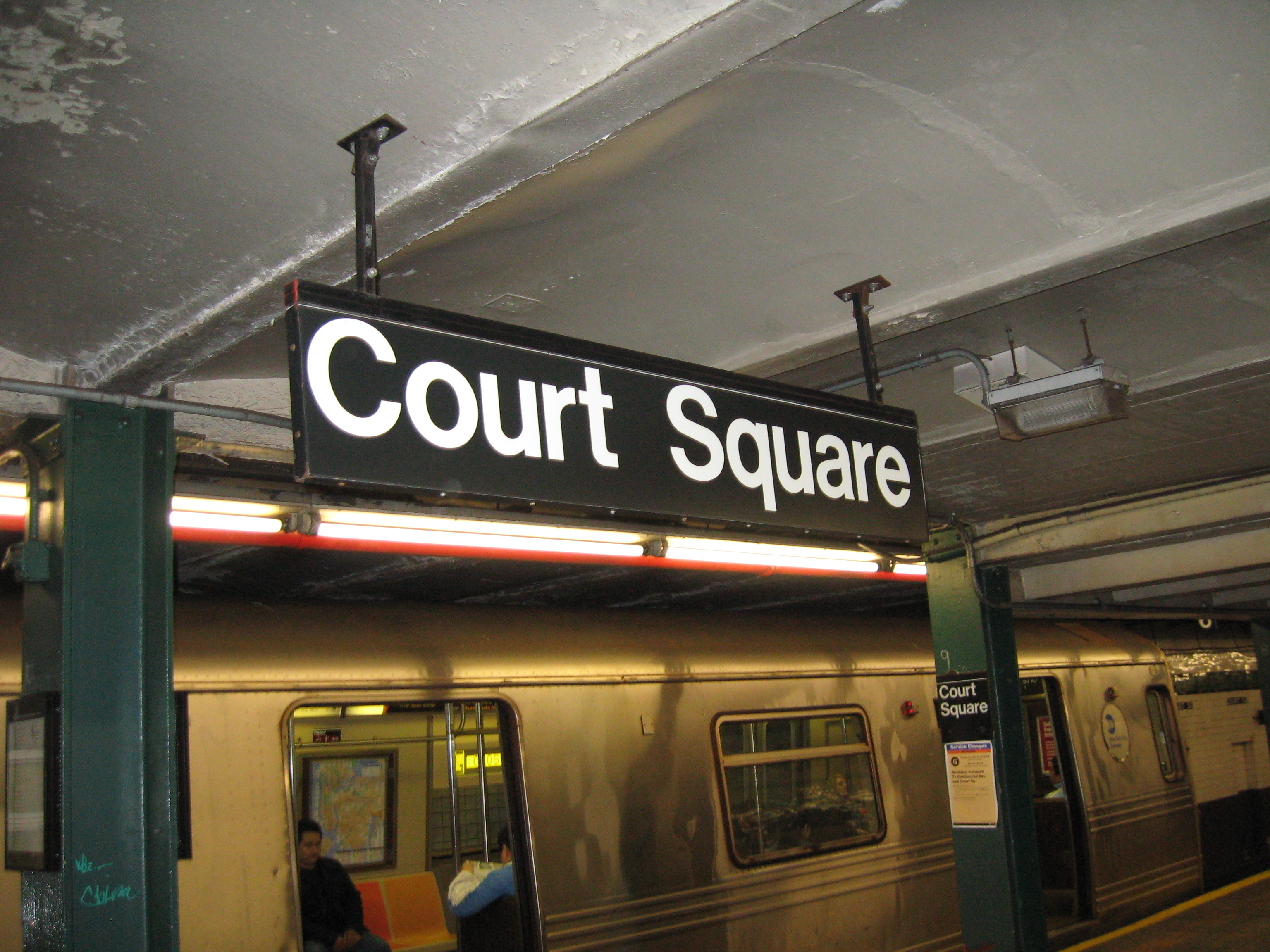 Court Square G station. Taken on the platform.